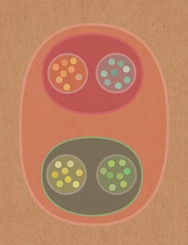 Logical relationship between taxonomic categories: species, genus, family, order